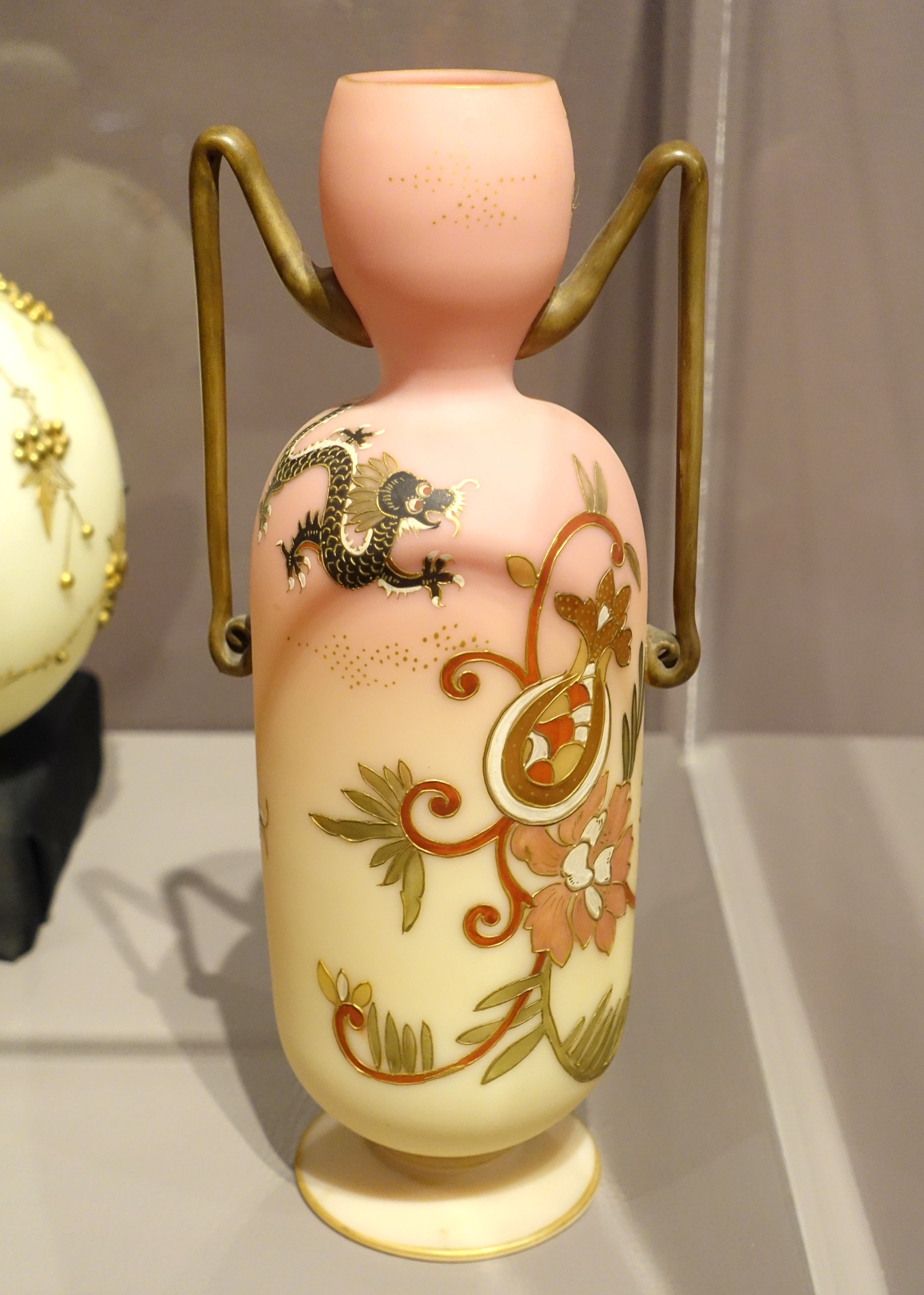 Exhibit in the Bennington Museum - Bennington, Vermont, USA. This work is in the public domain because the artist died more than 70 years ago.